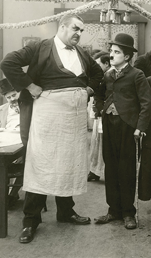 The huge waiter (played by Eric Campbell) glowers at the immigrant (Charlie Chaplin) from a scene still for the 1917 silent comedy "The Immigrant."